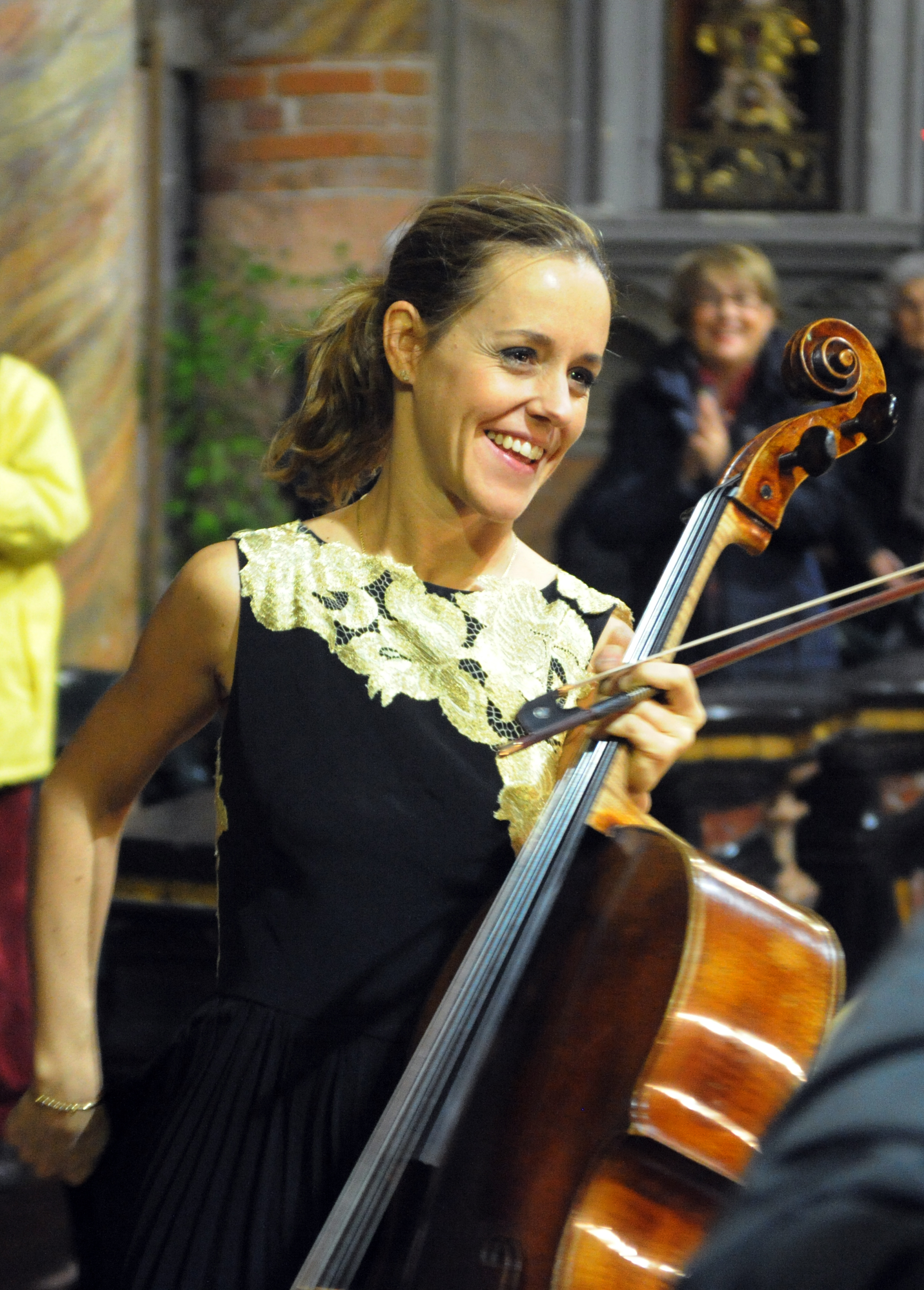 Celloist Sol Gabetta plays live in S.Agata Church, Pontestura (Alessandria Province), Italy